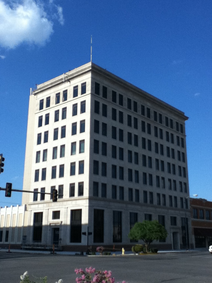 First National Bank of Enid was founded by Herbert Hiram Champlin. It was the only bank ever to be closed by the military in American history, when Governor Murray ordered the National Guard to close it during the Great Depression.